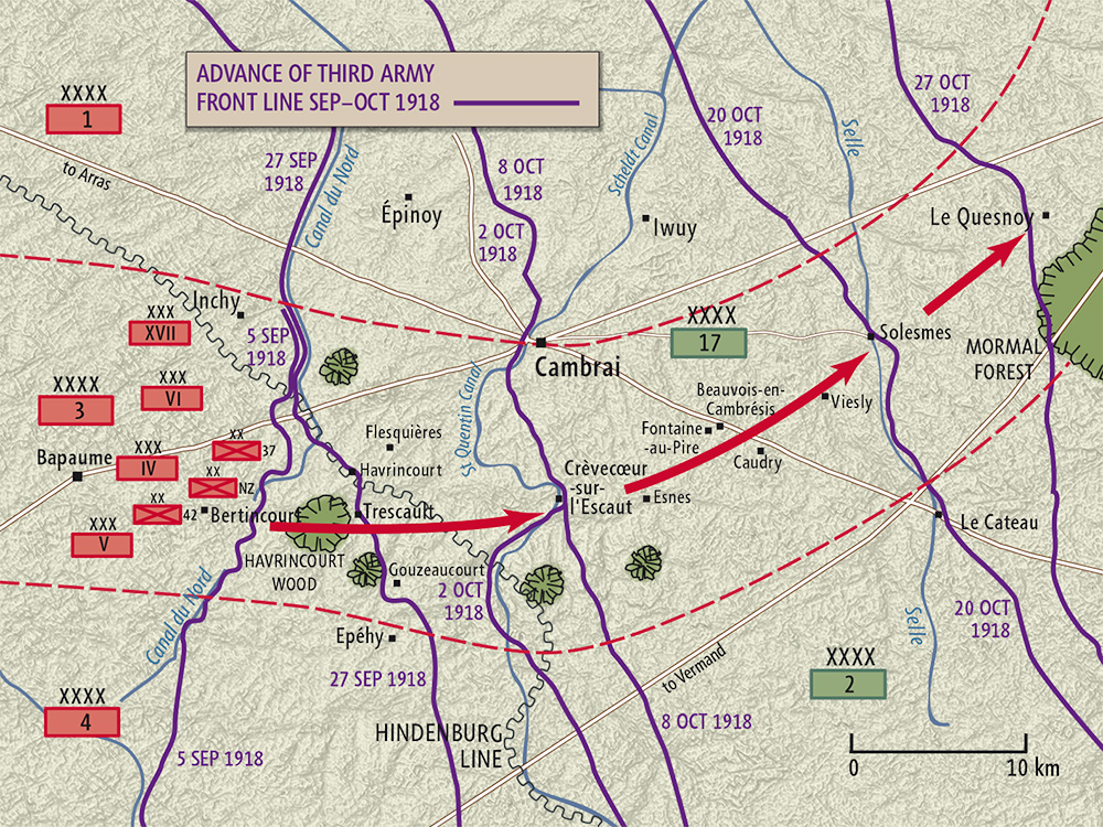 This map shows the route taken by the British Third Army (between the red dotted lines) as it advanced across northern France during the Hundred Days Offensive - the rapid series of Allied victories in the final stages of the First World War. The advance of the New Zealand Division – part of the Third Army’s IV Corps – is shown by the red arrow. The purple lines mark the front on specific dates in September and October 1918.